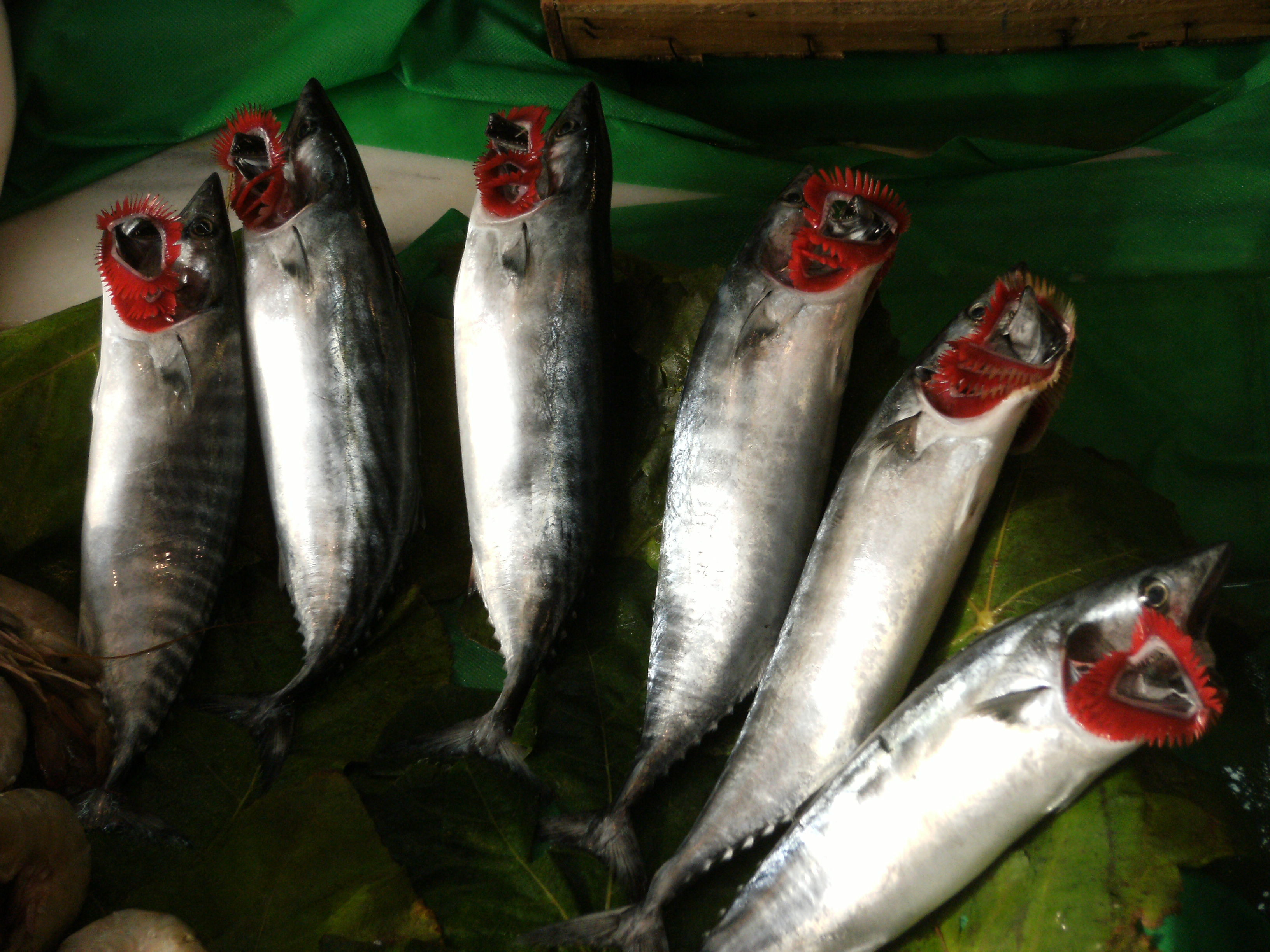 Sarda sarda, Istanbul.